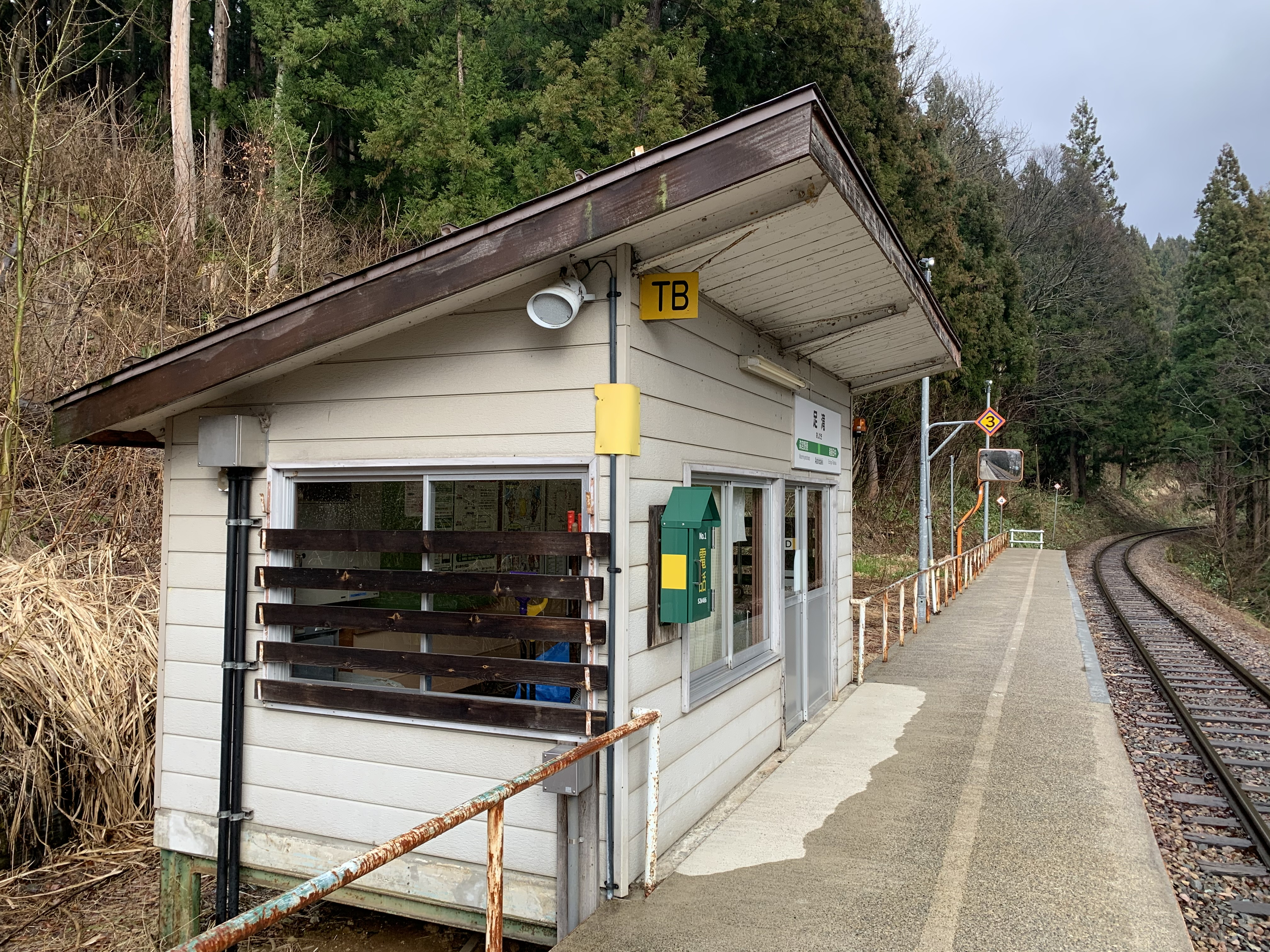 Ashidaki Station, East Japan Railway Company